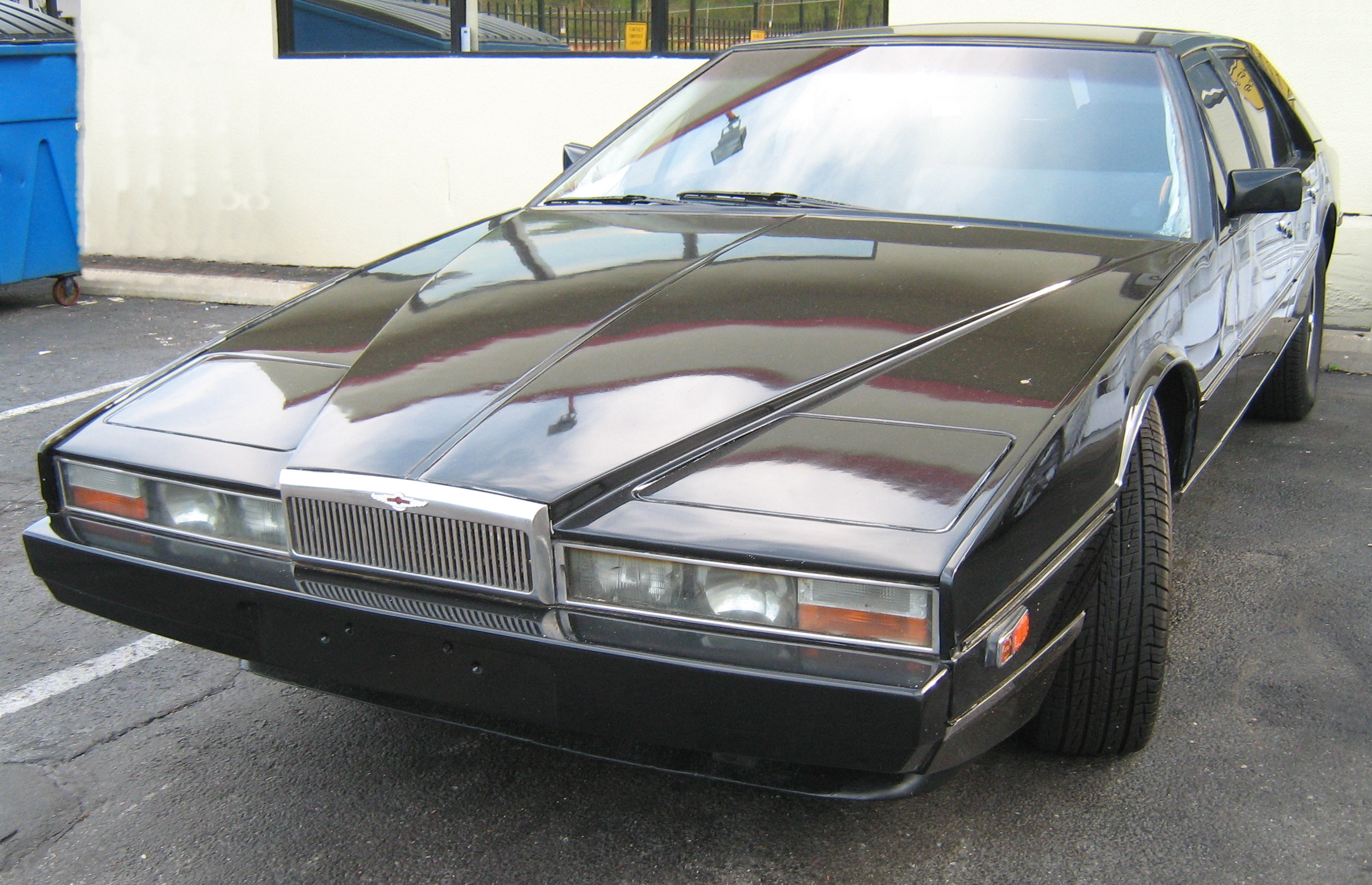 Aston Martin Lagonda (series 2) with pop-up headlamps